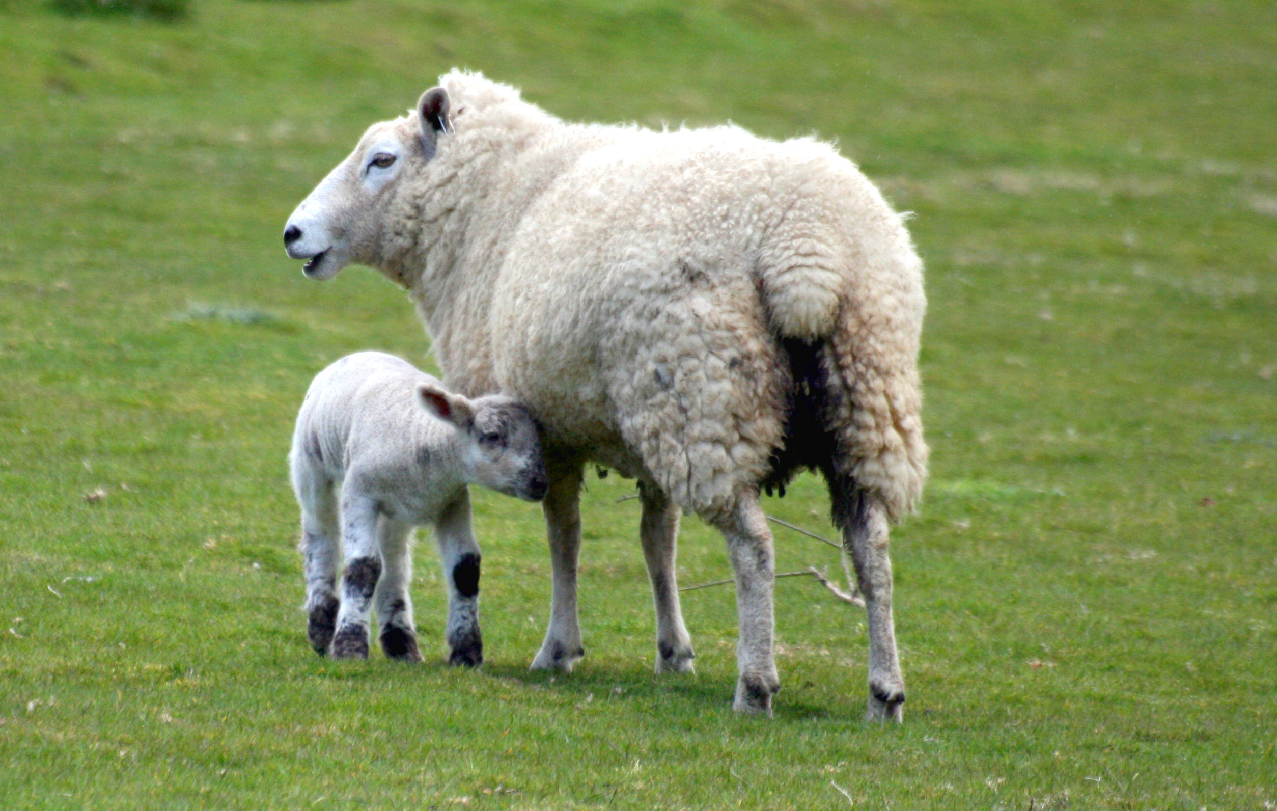 Sheep, Dedham, Essex, England